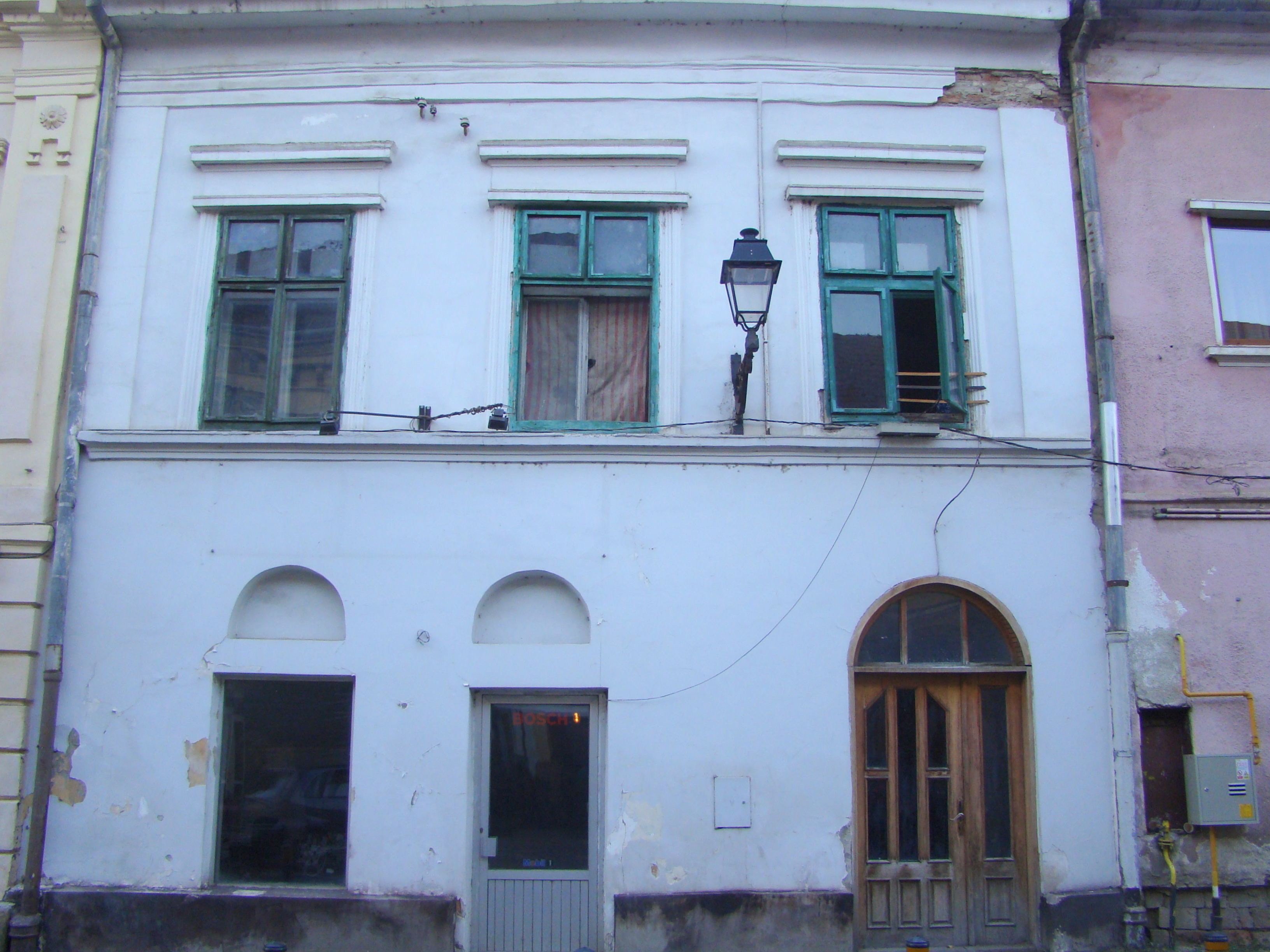 House, historic monument, in Bistrița, Nicolae Titulescu street 4